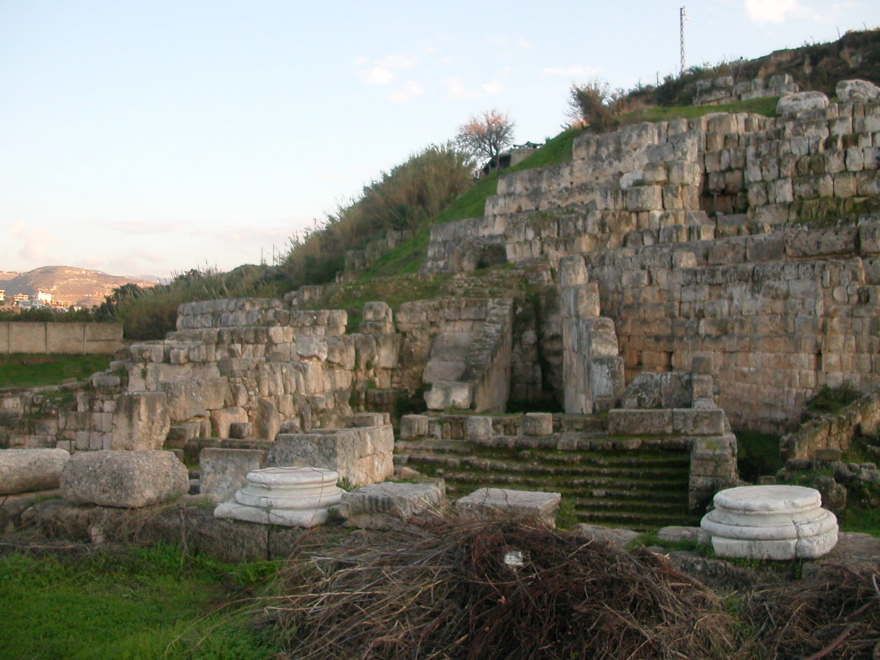 Echnoum 4